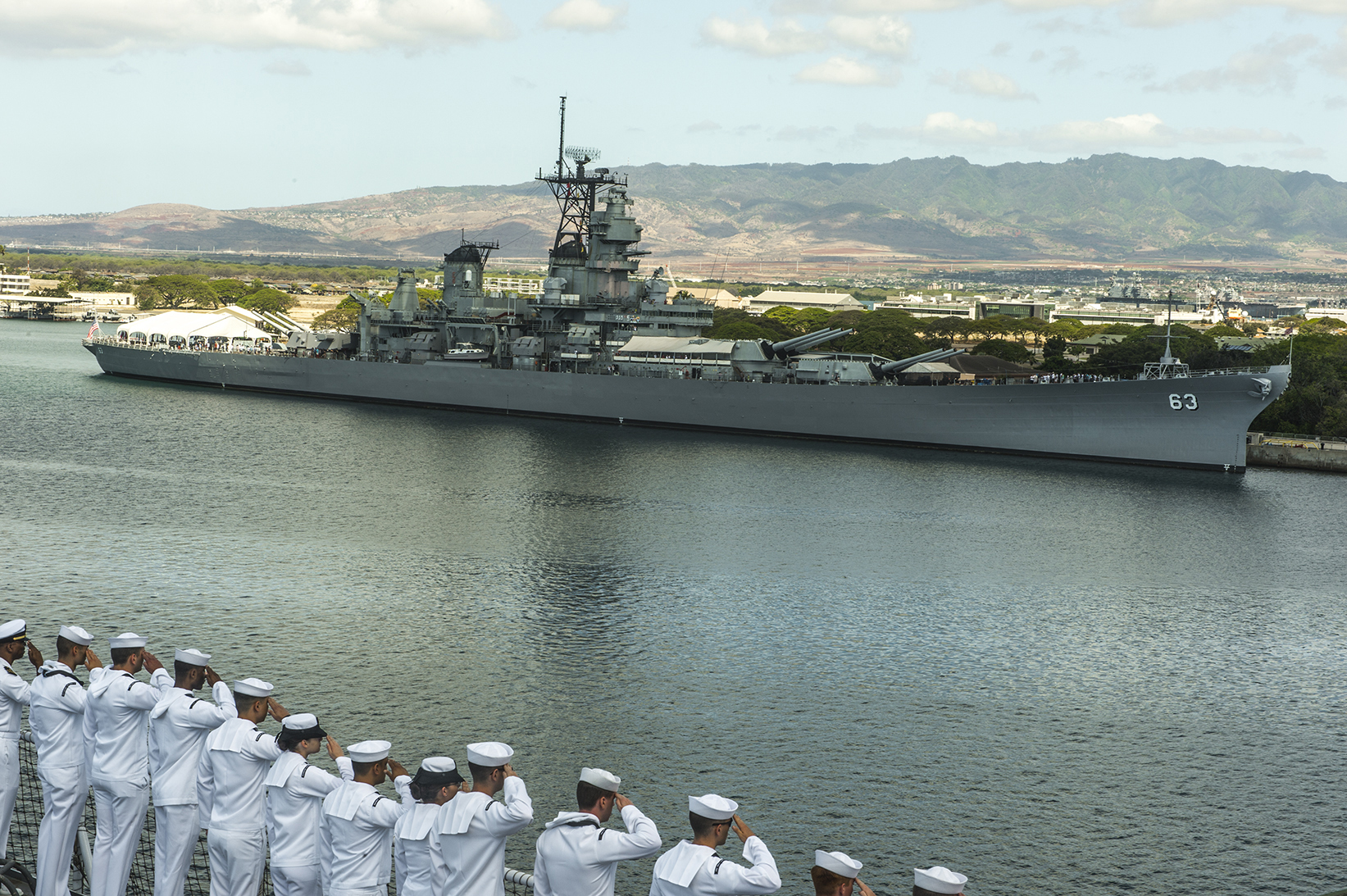 150525-N-TQ272-039 JOINT BASE PEARL HARBOR-HICKAM, Hawaii (May 25, 2015) - Sailors aboard the Military Sealift Command hospital ship USNS Mercy (T-AH 19) render honors as the ship passes the USS Arizona Memorial and the Battleship Missouri Memorial during Pacific Partnership 2015. Now in its 10th iteration, Pacific Partnership is the largest annual multilateral humanitarian assistance and disaster relief preparedness mission conducted in the Indo-Asia-Pacific region. In addition to training for crisis conditions, Pacific Partnership has provided medical care to approximately 270,000 patients and veterinary services to more than 38,000 animals. Additionally, Pacific Partnership has provided critical infrastructure development to host nations through the completion of more than 180 engineering projects. (U.S. Navy photo by Mass Communication Specialist 2nd Class Mark El-Rayes/Released)